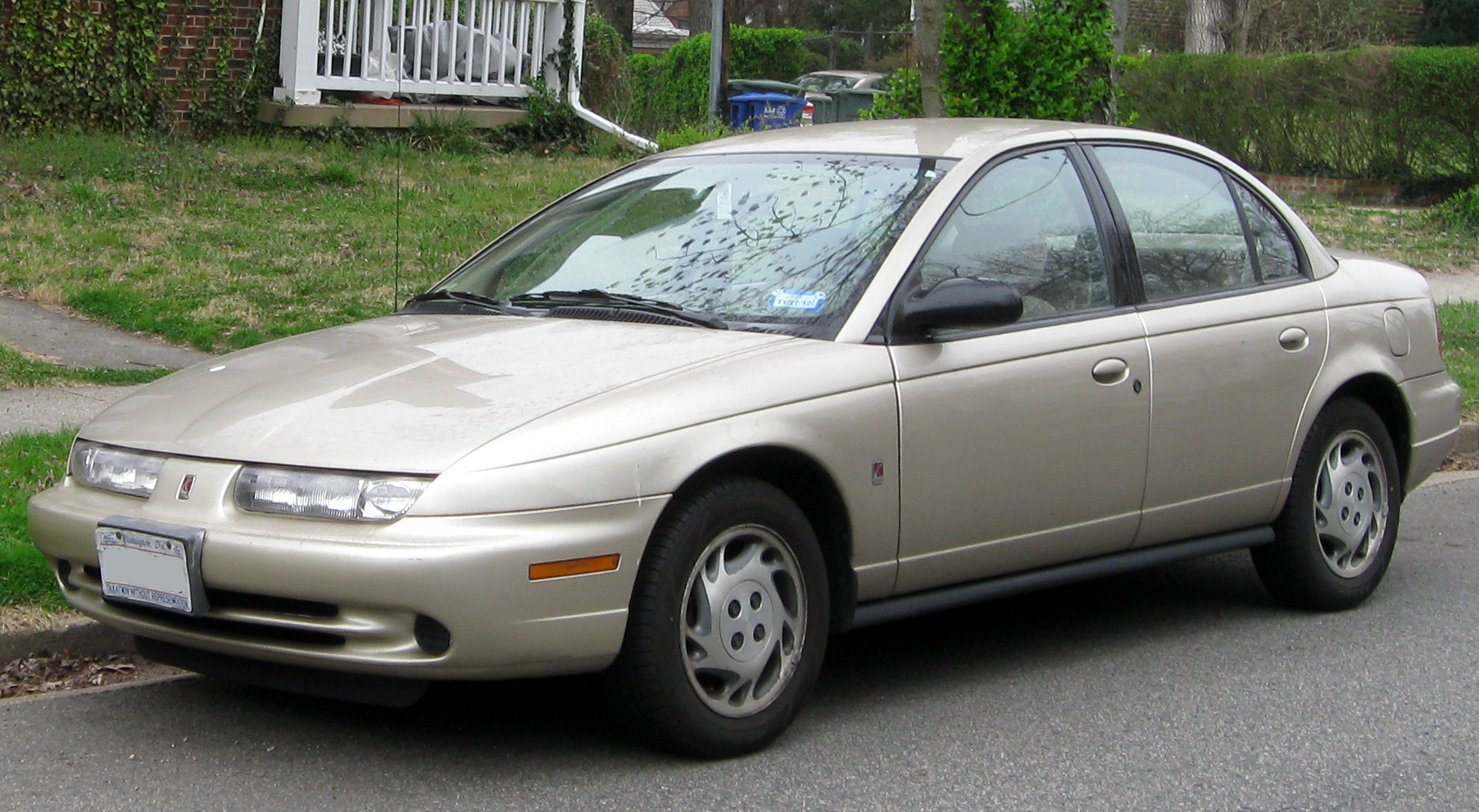 1996-1999 Saturn SL photographed in Washington, D.C., USA.